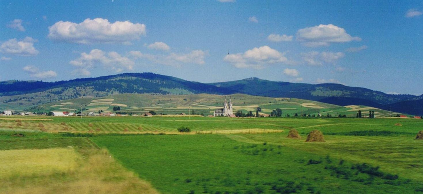 Ditrău, Harghita County, Romania.